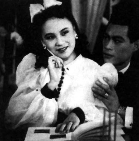 Chen Yanyan in 1942's 'Wedding Night' with Liu Qiong Chen Yanyan (12 January, 1916 – 7 May, 1999) was a Chinese actress. She made 24 films in China up to 1937 when the war ended film making in Shanghai.